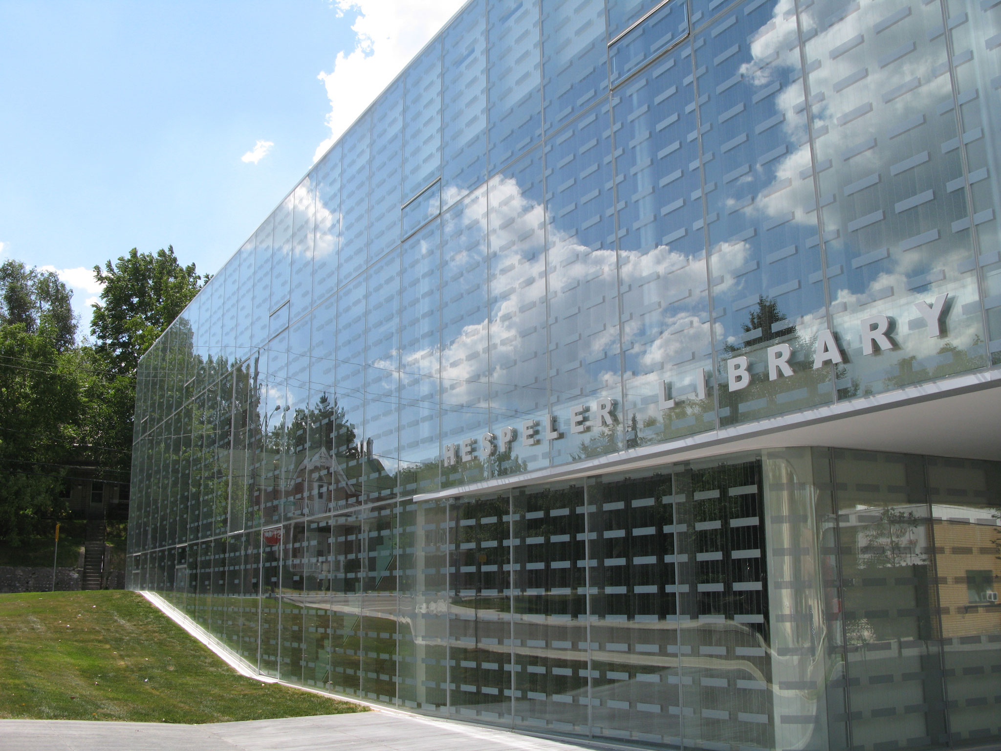 The new Hespeler Library in Cambridge, Ontario, Canada was built by constructing a glass cube around the historic Carnegie library.